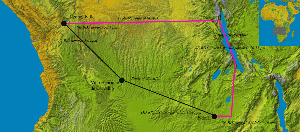 Redrawn from map in Air Disaster Volume 4 by Macarthur Job and Image:Topography of africa.jpg by User:John. Depicts the flight paths of the two aircraft involved in the death of Dag Hammarskjold on 17 September 1961.